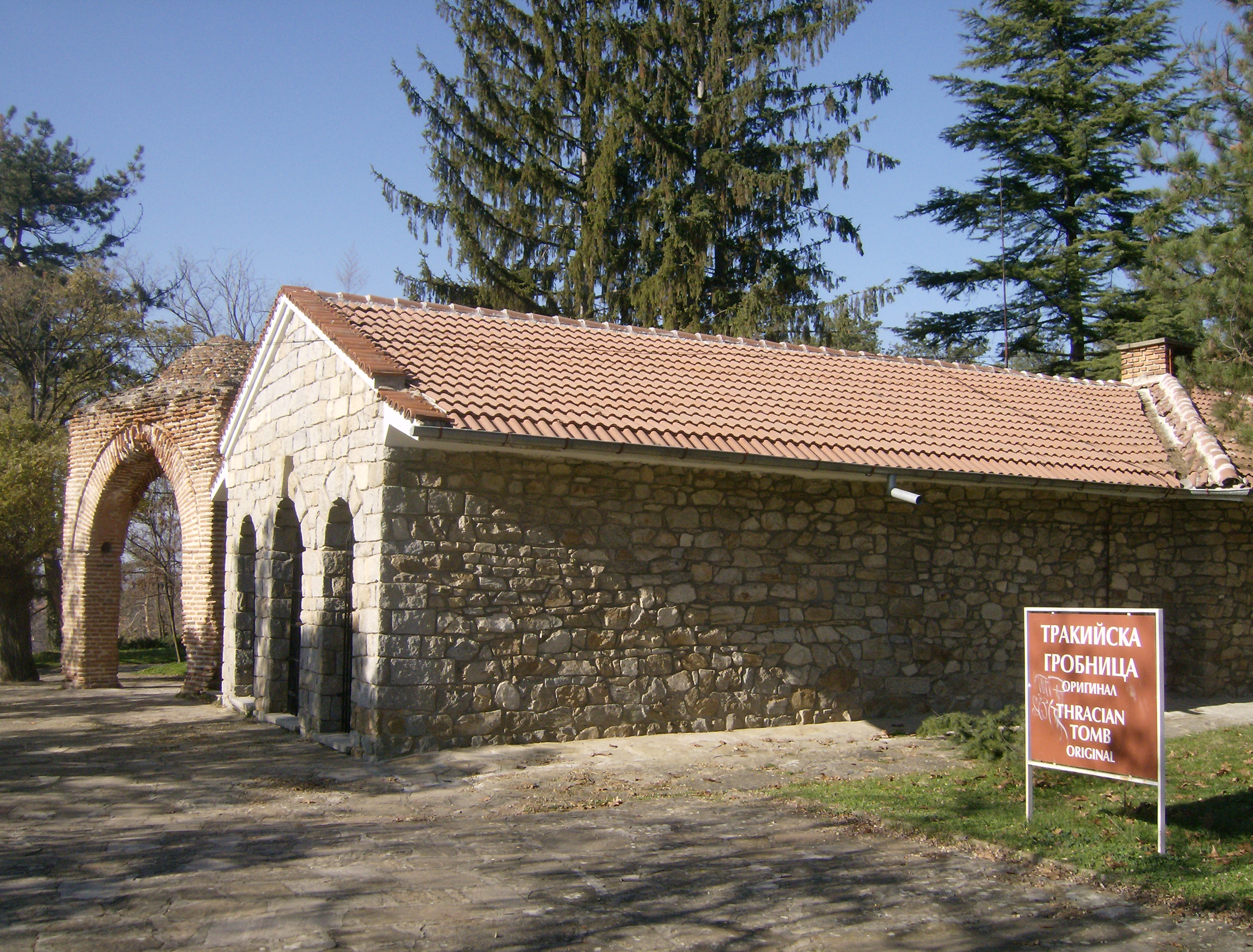 Thracian tomb (Kazanlak)